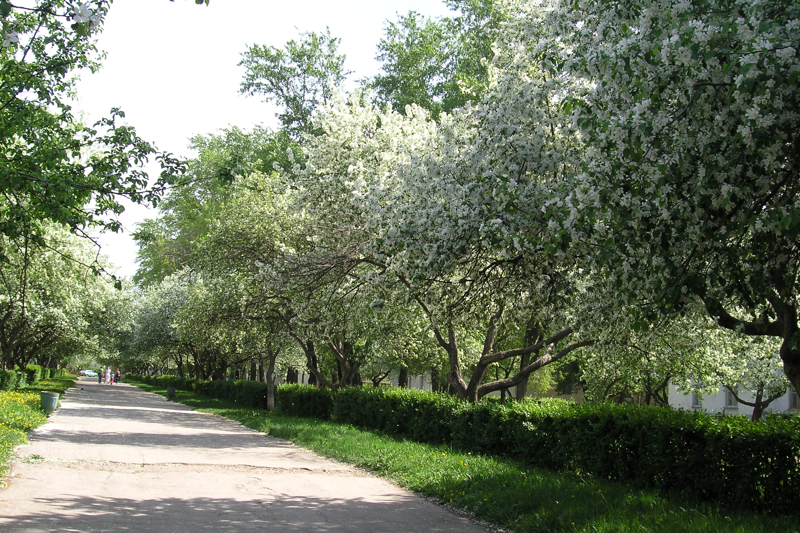 Flowers on apple trees, Togliatti, Russia